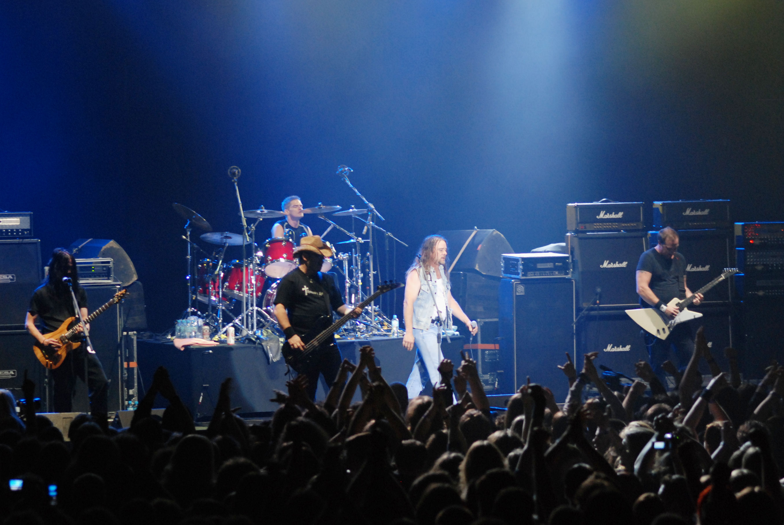 Flotsam&Jetsam during Metalmania 2008 festival